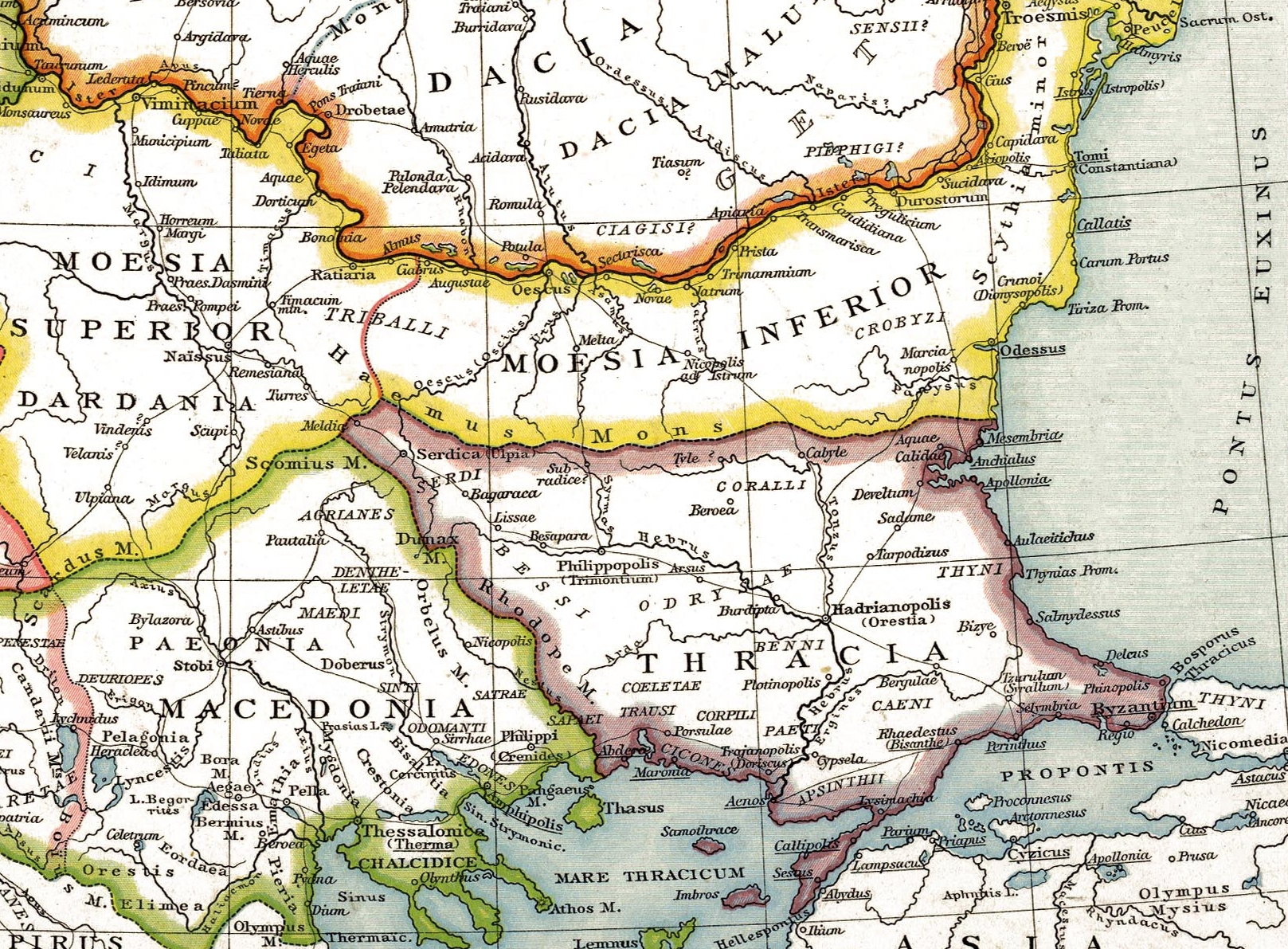 roman province Thracia - outcut from a bigger map: The Roman provinces of the Lower Danube. Old historical map from Droysens Historical Atlas, 1886